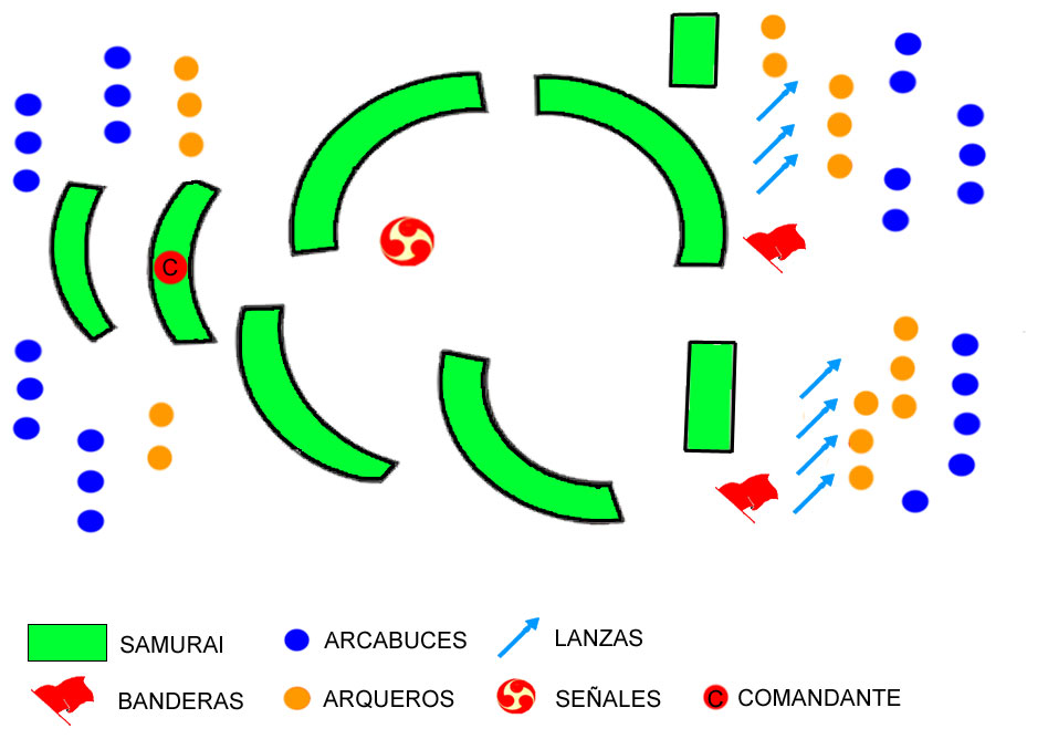 Samurai formation called "Engetsu", used during Azuchi-Momoyama period of japanese history.